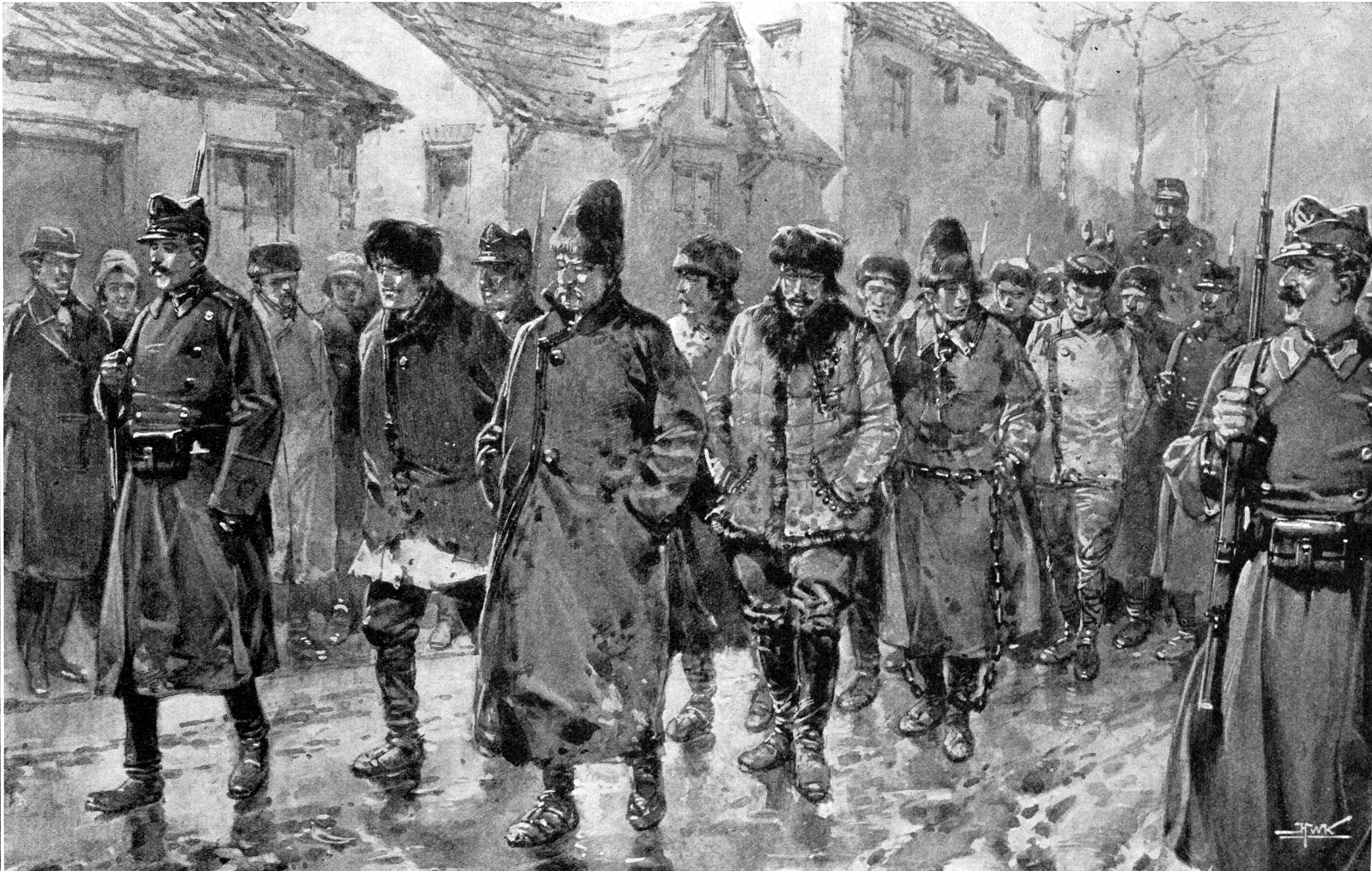 Infantry escorting prisoners through Piatra Neamtu